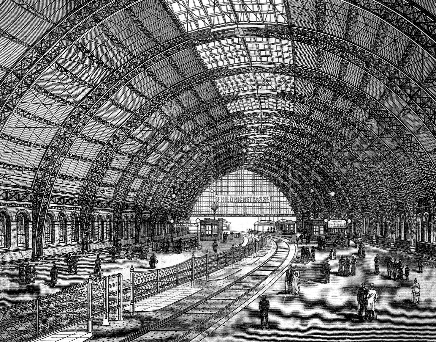 Berlin Friedrichstraße station: the prospective train shed; view east towards Friedrichstraße. The engraving is a copy, enlivened with staffage figures, of the original architectural drawing published 1885. The name of the station, Friedrichstrasse, was originally displayed on the West- and East-façade but the inscription had been removed by 1898, provided the photograph of the East-façade by Titzenthaler is dated correctly. Seen from the inside of the hall the writing would appear not as shown in the engraving but in mirror writing. Lit.:Atlas zur Zeitschrift für Bauwesen, hrsg. v. F. Endell, Jg. 35, 1885, Bl.10